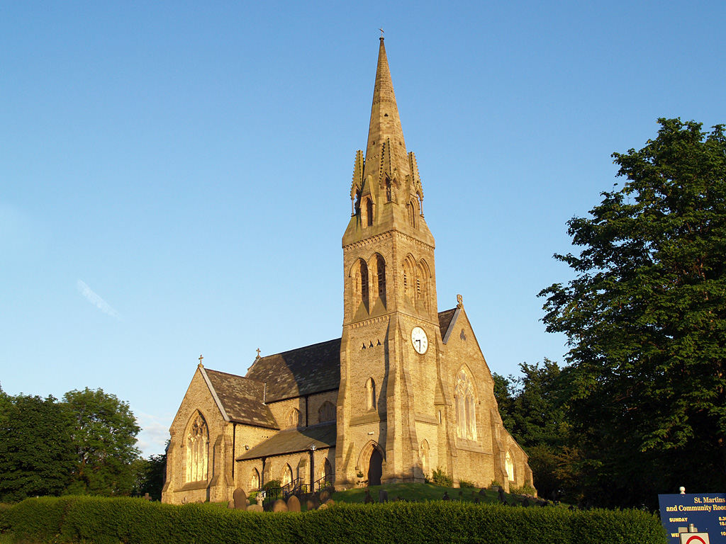 St Martin's parish church, Castleton, Greater Manchester, England, seen from the northwest